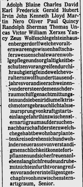 A (possibly misspelled) reproduction of the full name of Hubert B. Wolfe + 666 as it appeared in The Free-Lance Star